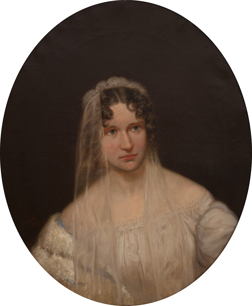 WHITMAN, SARAH HELEN (1803-1878) oil on canvas by Arnold, John Nelson (1834-1907), owned by Brown University, after an original by Cephas Giovanni Thompson (1809-1888) in 1838 owned by the Providence Athenaeum.